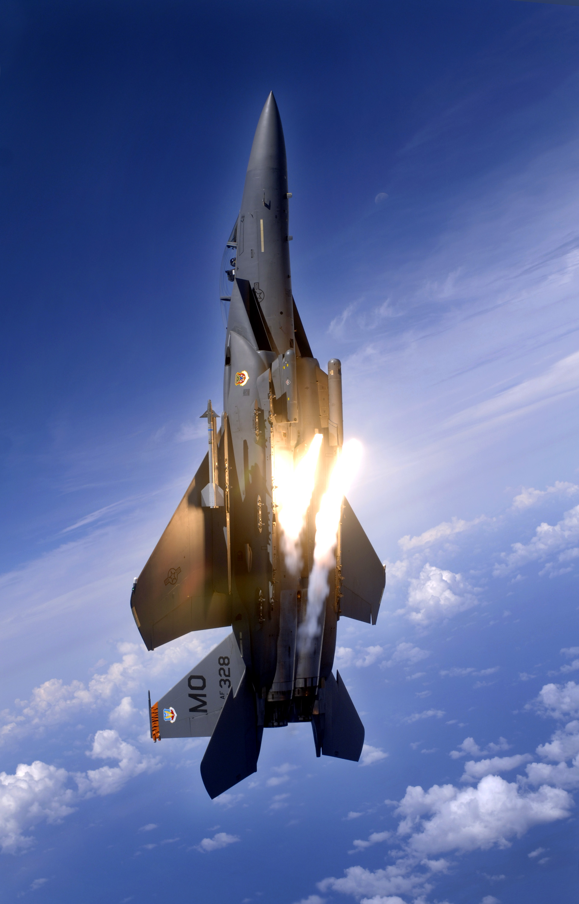 An F-15E Strike Eagle from the 391st Expeditionary Fighter Squadron pops flares during an aerial training dog fight here recently. The 391st EFS are deployed here from Mountain Home Air Force Base, Idaho, on a rotational basis supporting the U.S. Air Force's continued forward presence in the Western Pacific. (U.S. Air Force photo/Technical Sgt. Cecilio Ricardo)